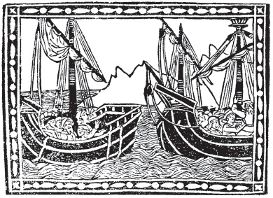 Woodcut depicting Amerigo Vespucci's second voyage to the New World (1499-1500, with Alonso de Ojeda), from first known published edition of Vespucci's 1504 Letter to Soderini, entitled "Lettera di Amerigo Vespucci delle isole nuovament trovate in quattro suoi viaggi", published by Pietro Pacini in Florence c.1505. Photographic facsimile reproduced from 1893 First Four Voyages of Amerigo Vespucci, London: B. Quaritch online